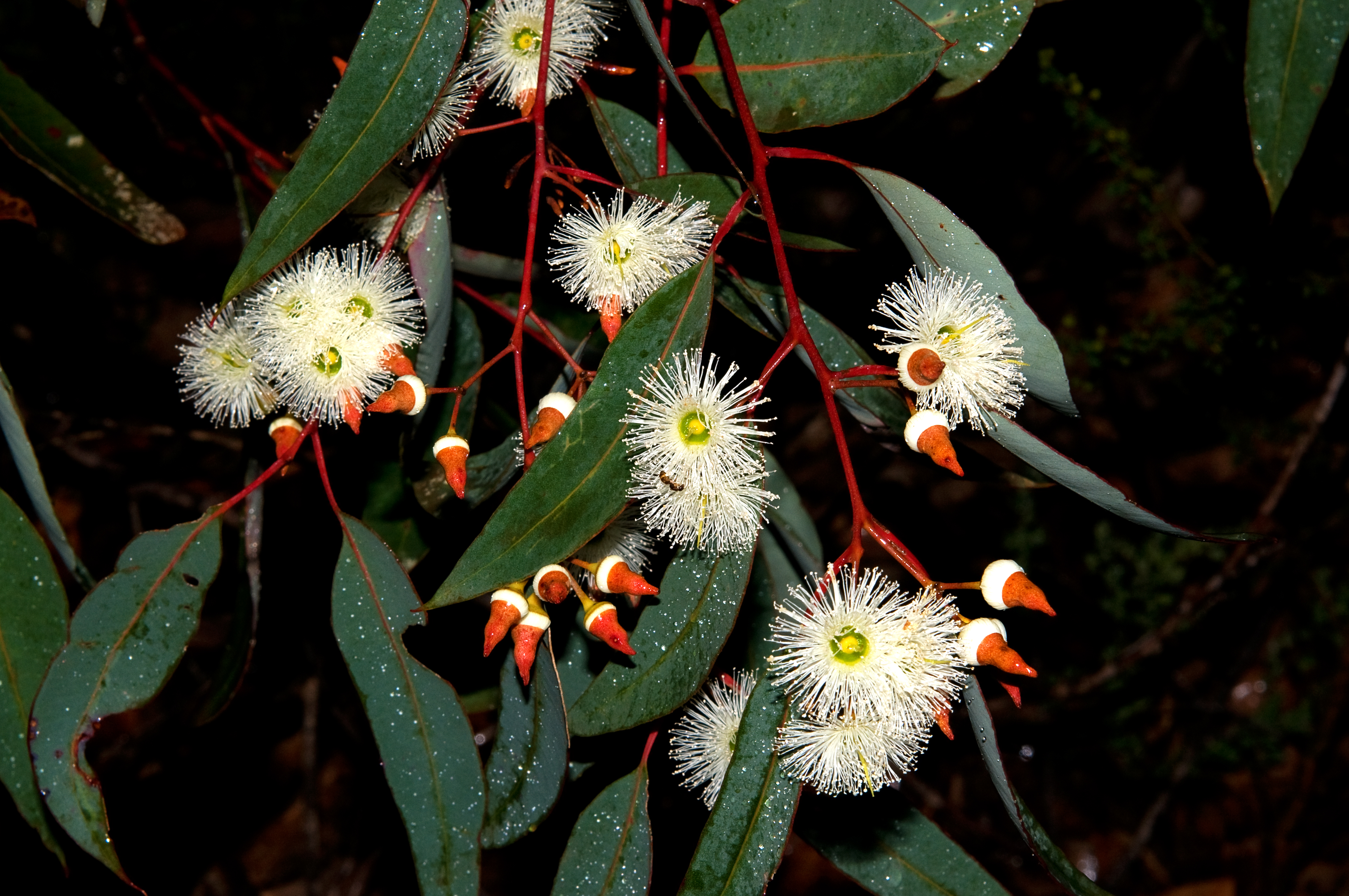 Flowers of Jarrah photographed along Sue's Rd in the Margaret River region